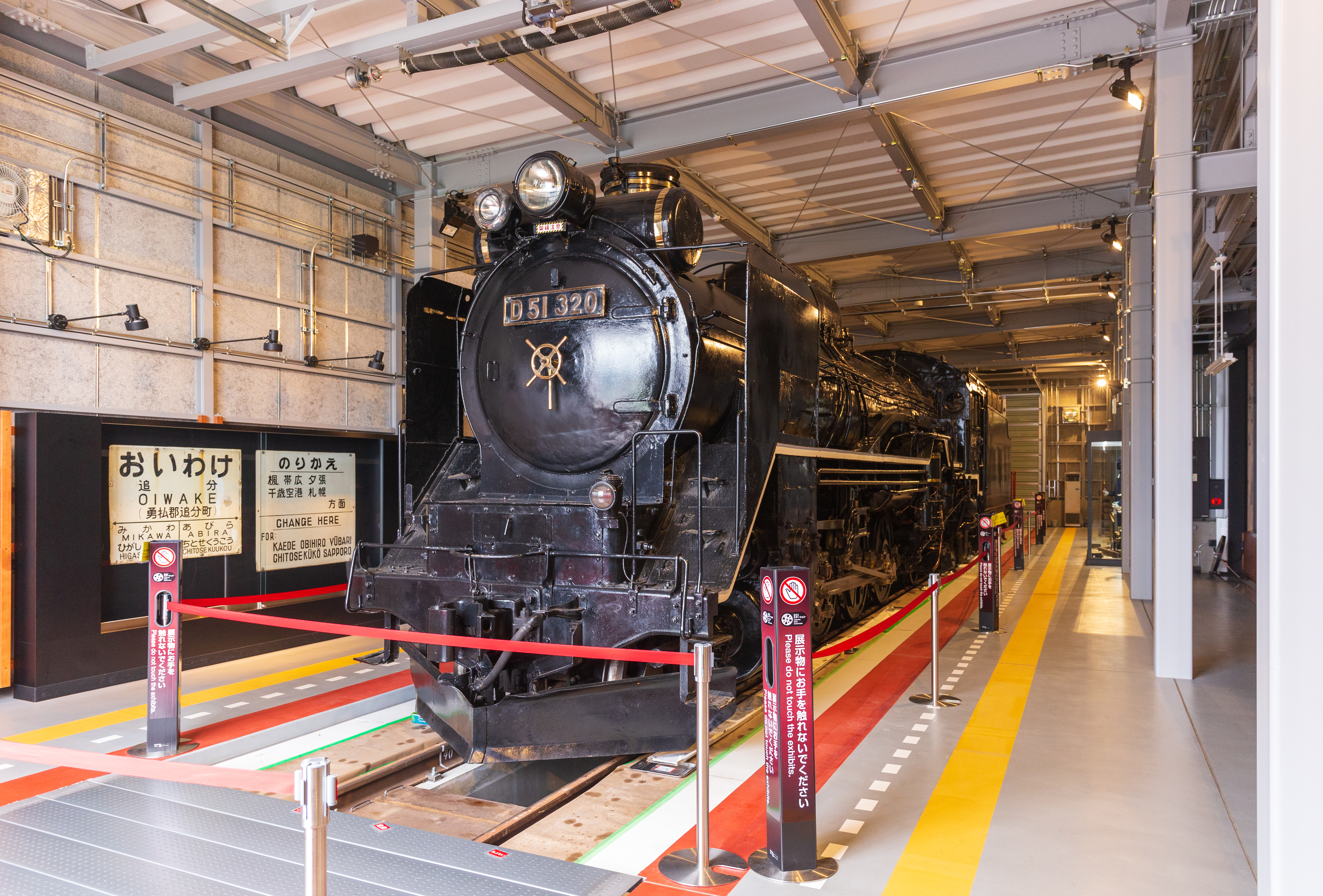 Japanese National Railways D51 320 steam locomotive displayed at Michinoeki Abira D51 Station in Abira Town, Hokkaido, Japan